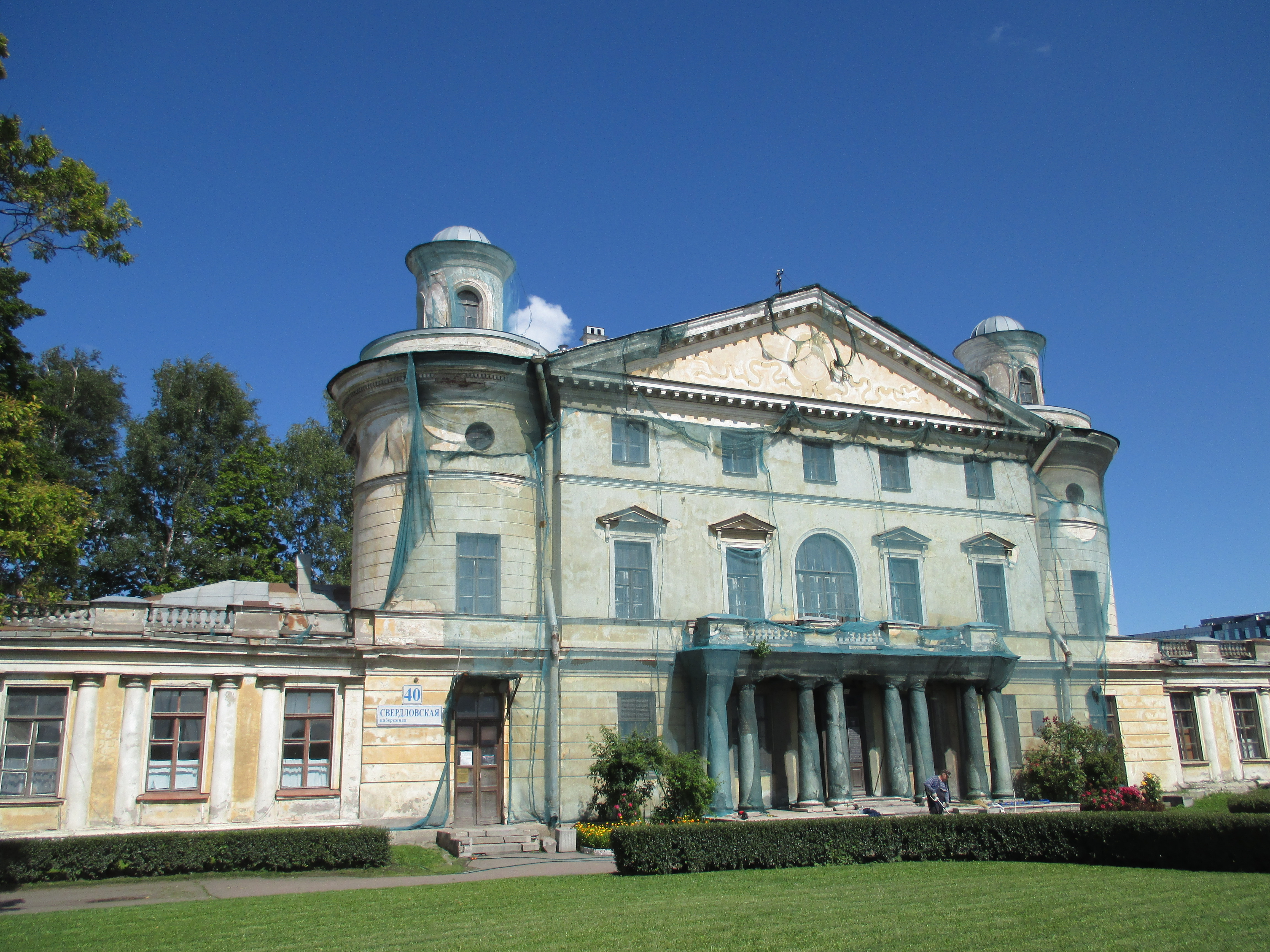 Bezborodko Dacha in Saint Petersburg - facade